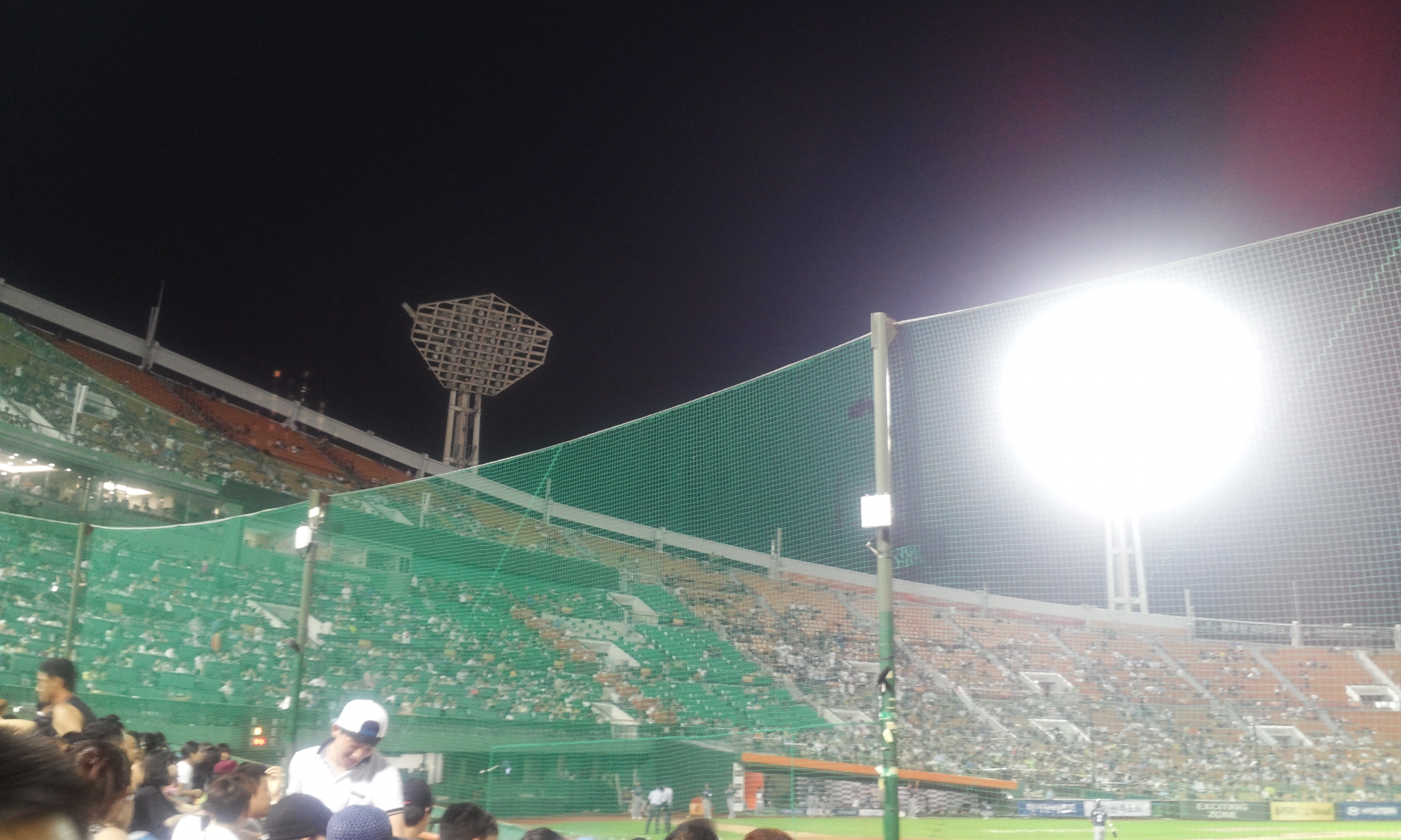 Busan Sajik Stadium lighting tower turned off due to breakdown on August 5th, 2014